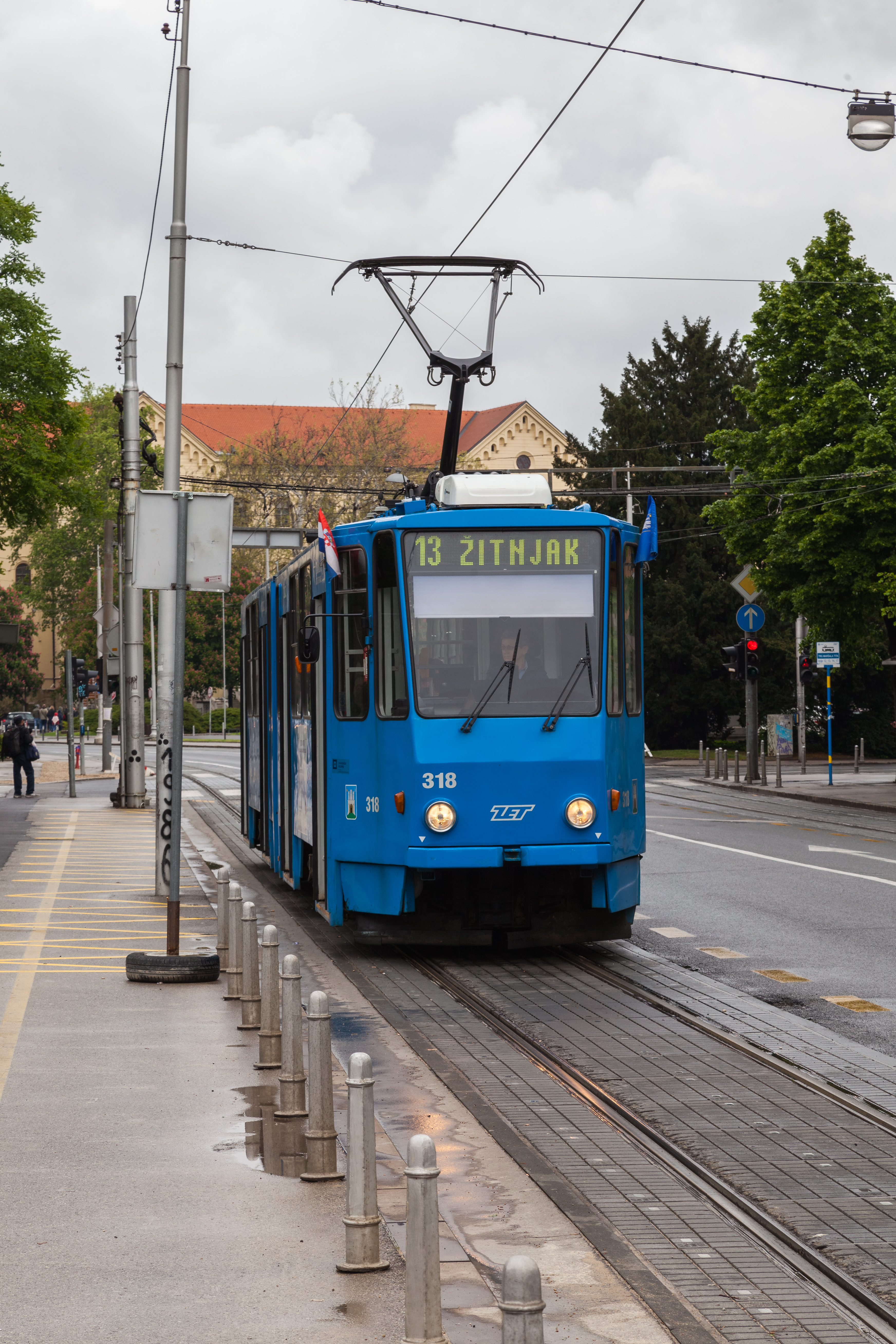 Tram 13, Zagreb, Croatia